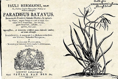 Reproduction of pages from Paul Hermann's Paradisus Batavus 1698